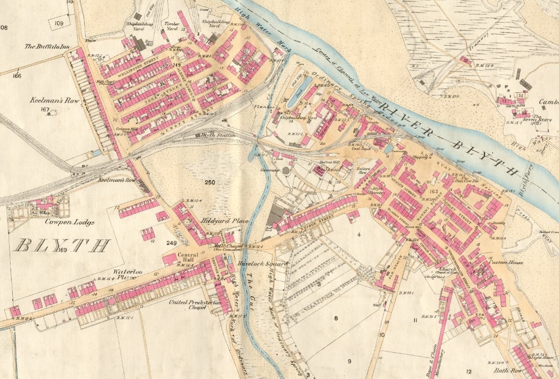 First edition Ordnance Survey map of Blyth, circa 1860